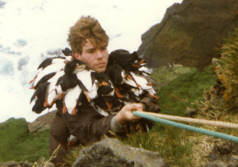 Detail of Image:Puffin hunter in Sudurey.jpg